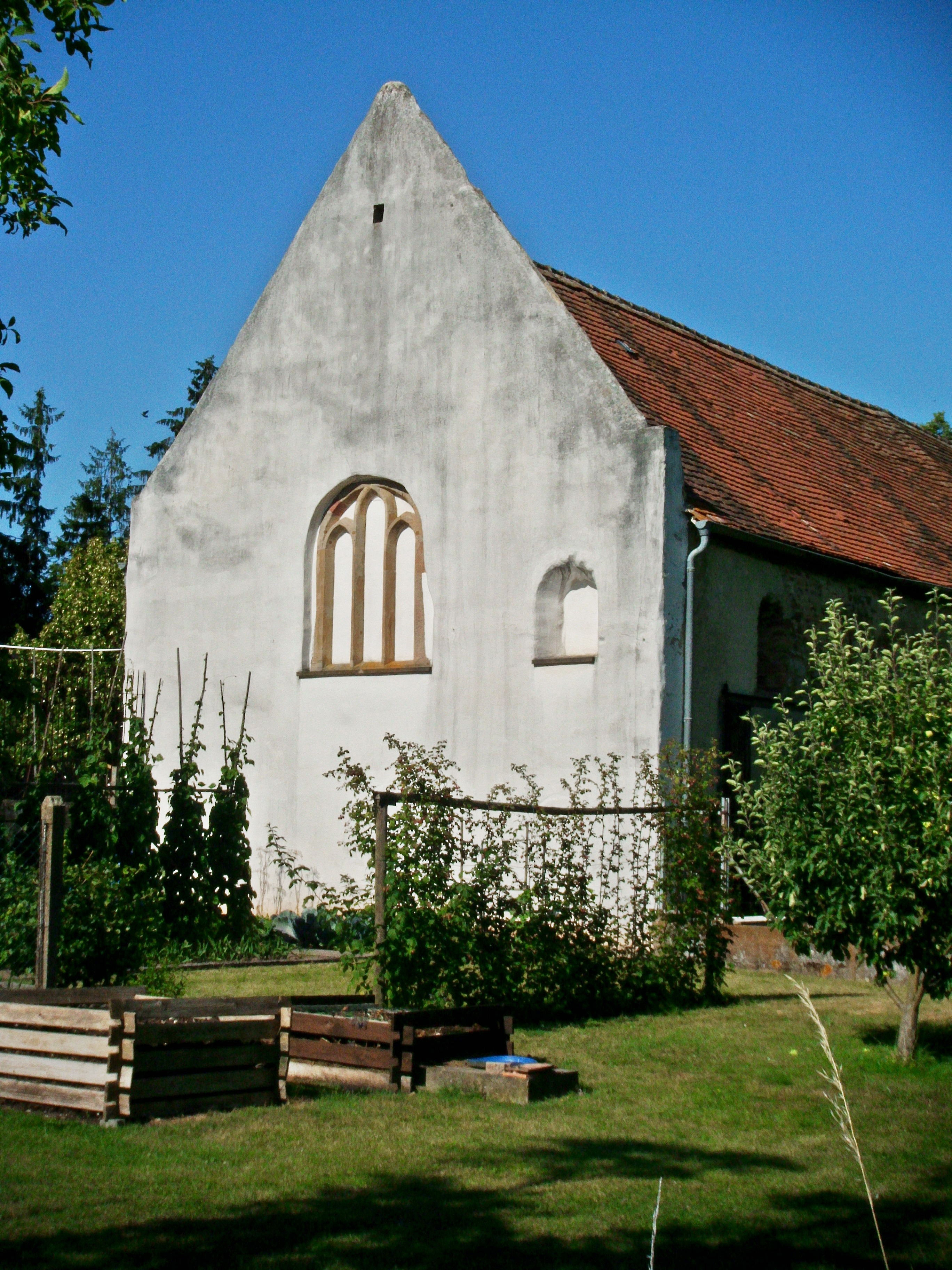 Kloste Hane, Bolanden, Konventsgebäude